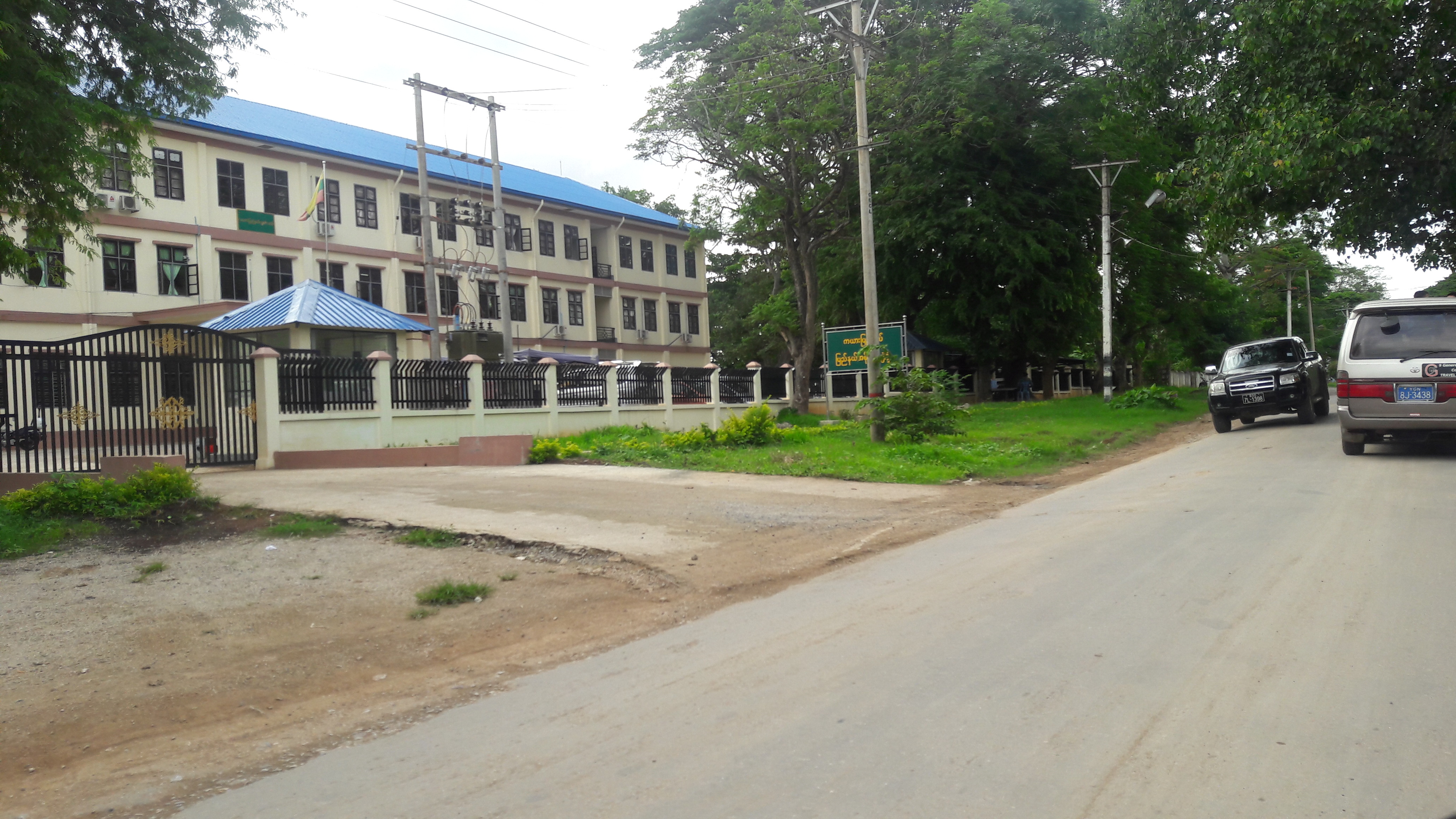 The former government office and parliament of Kayah State.Now this building is using for District Office for Loikaw district